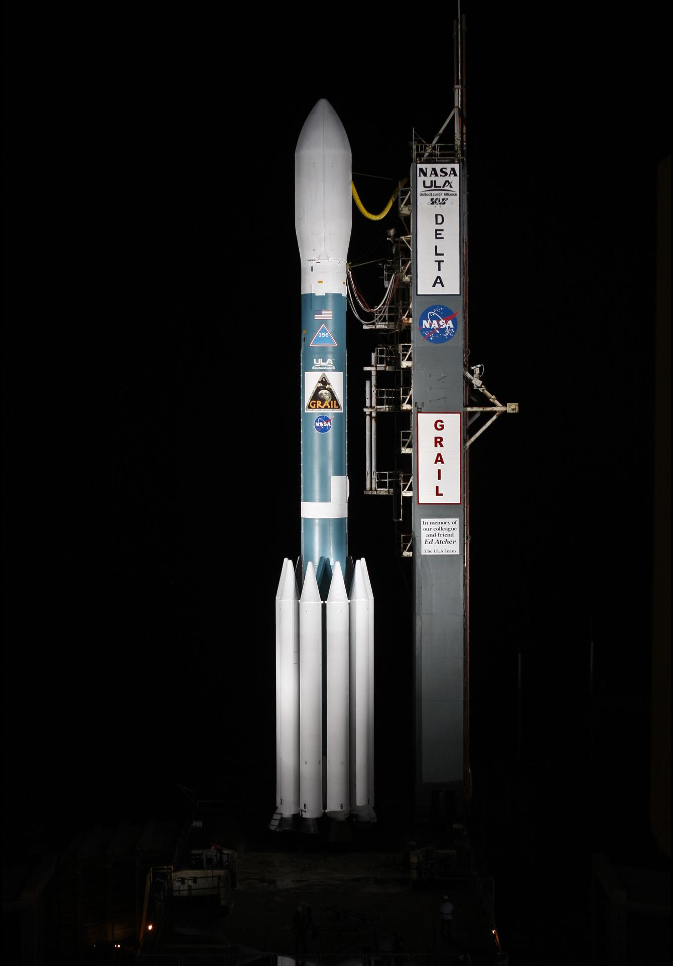 NASA's GRAIL twin spacecraft await launch atop a United Launch Alliance Delta II rocket at Cape Canaveral Air Force Station, Fla.